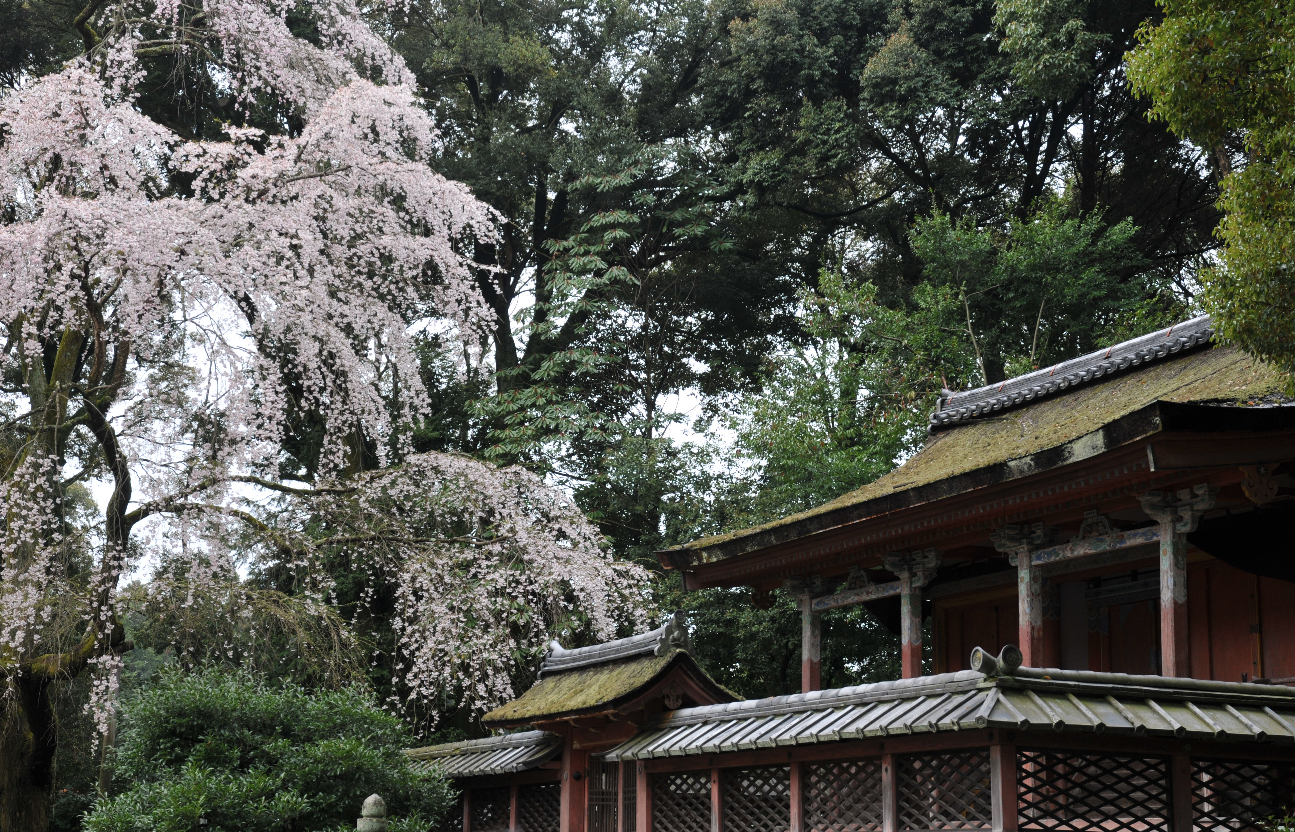 Seiryō-gū main shrine(Japan's national important cultural property) and cherry tree at Daigo - ji temple